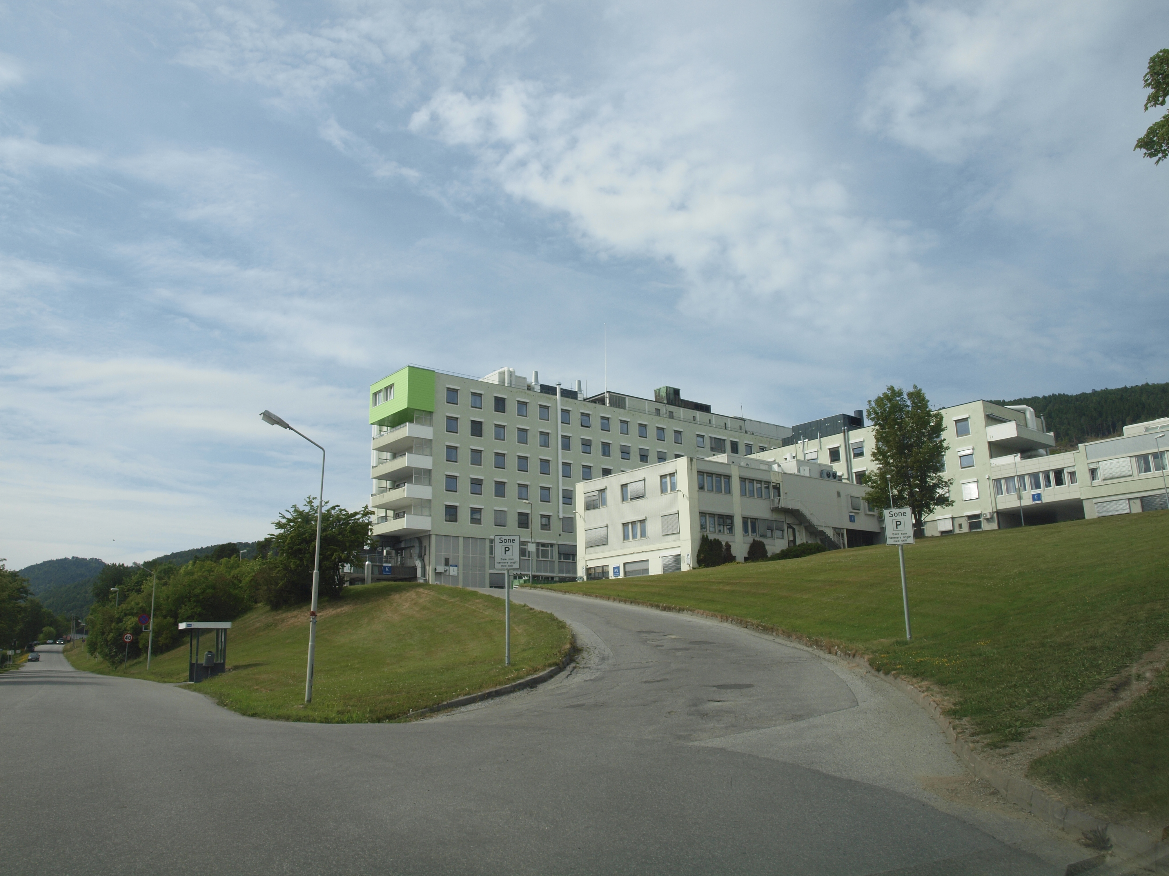 Molde sykehus (hospital) in Molde, Norway